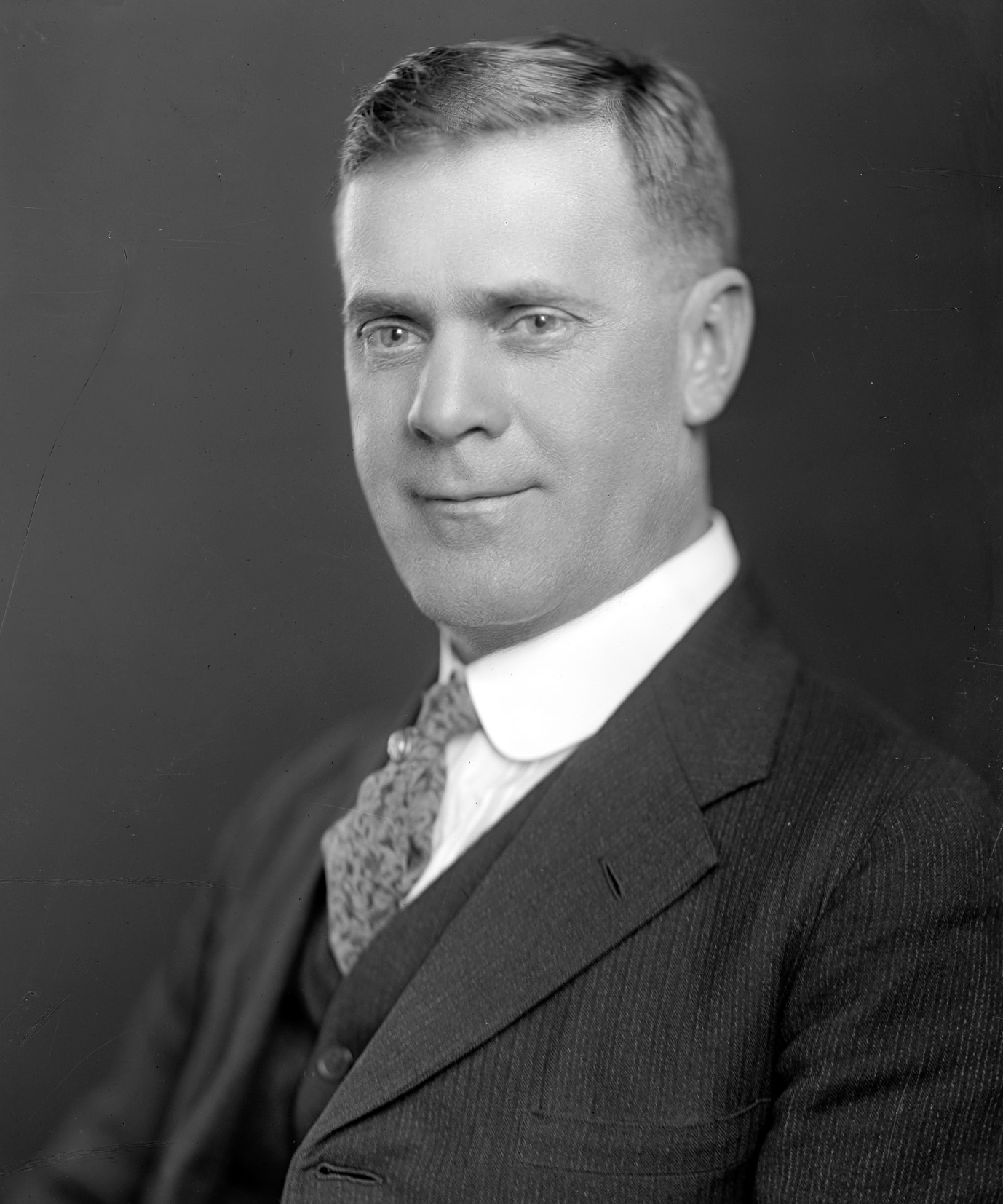 Thomas Jefferson Lilly, US Representative from West Virginia